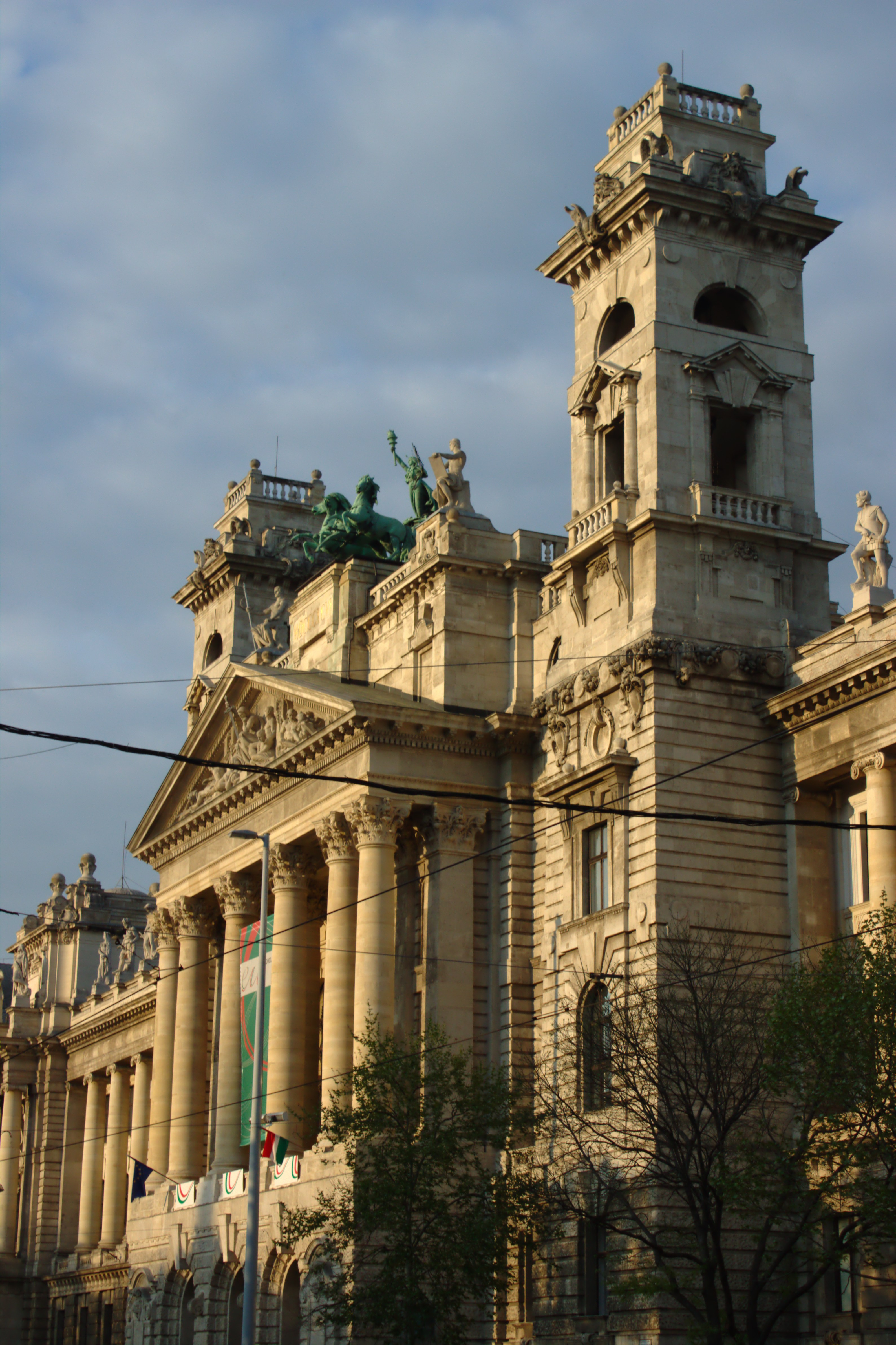 Etnographical museum in Budapest on Kossuth Lájos tér, next to the parliament building, Hungary